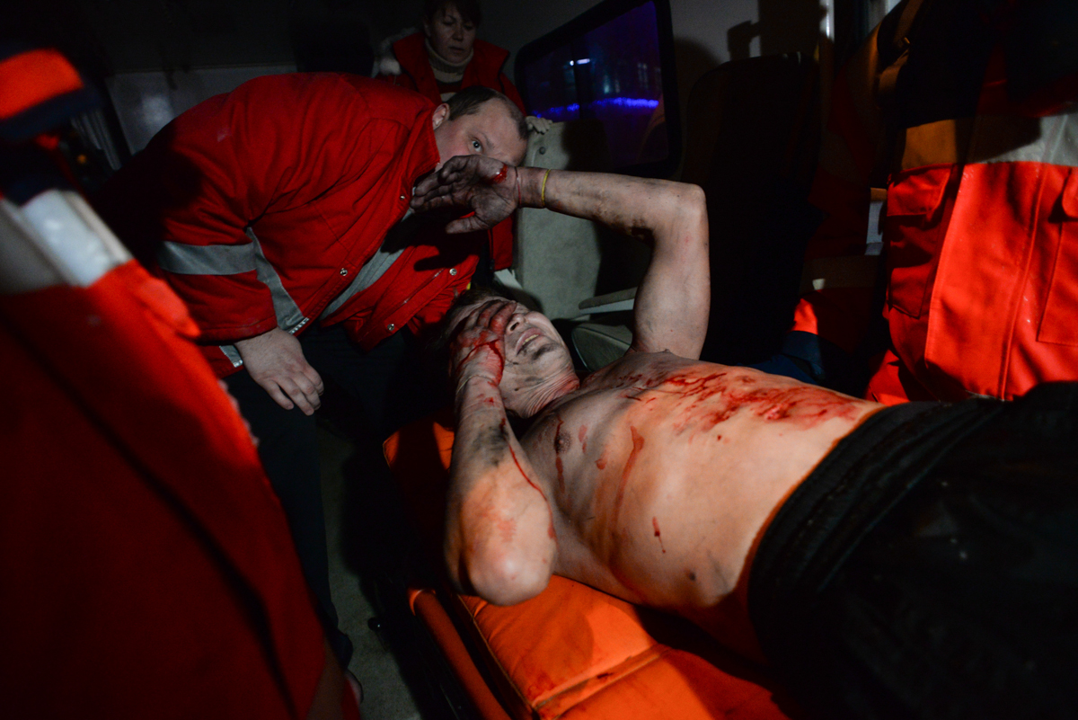 Ukrainian Red Cross Society volunteers administering first aid to a wounded protester. Euromaidan Protests. Events of Jan 19, 2014-5